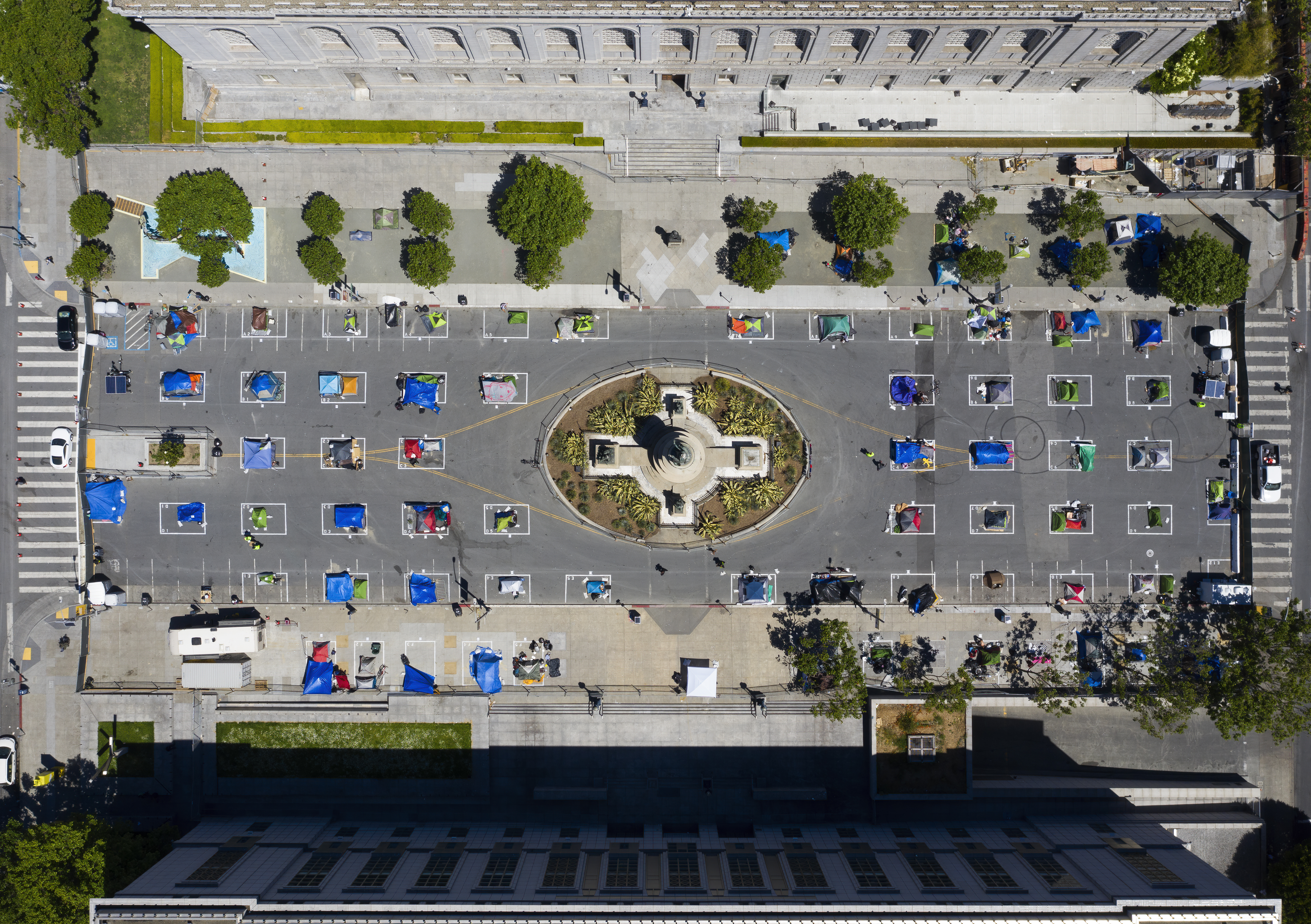 City Hall Homeless